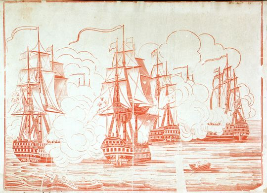 The Battle of Trafalgar, 21 Oct 1805; engraving, wood. Ships (left ot right): Britannia, La Hogue (uncertain), Santisima Trinidad, Victory.